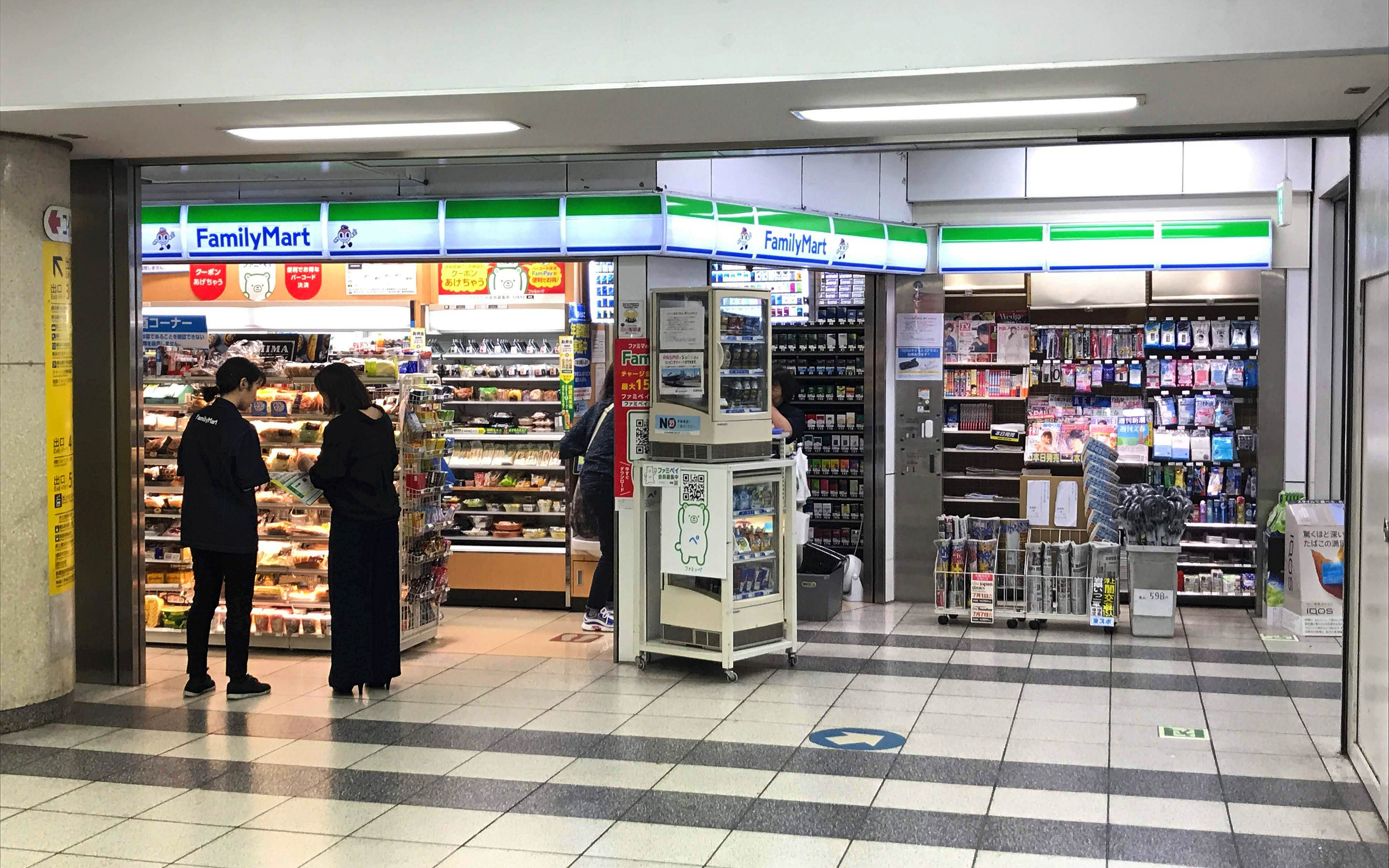 Family Mart "Hamarin Yokohama station mini" shop on the Yokohama Municipal Subway. On the sign, the mascot of the Yokohama City Transportation Bureau and the name of the shop are drawn with a train emoji.